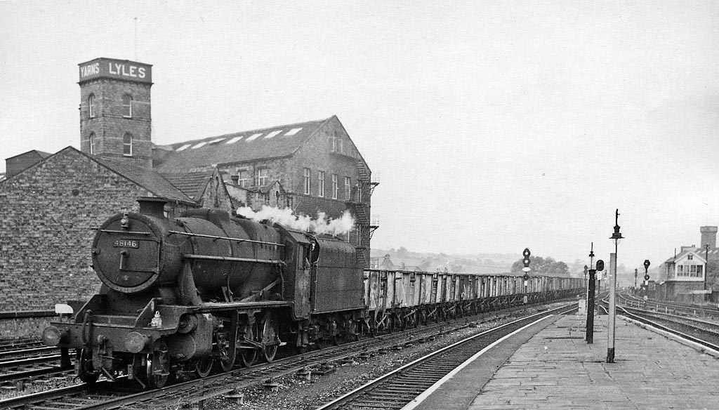 Eastbound empties passing Mirfield Station. View westward, towards Heaton Lodge Junction, Sowerby Bridge, Huddersfield and Manchester; ex-Lancashire & Yorkshire/London & North Western Manchester - Leeds/Wakefield etc. main lines. The photograph shows some of the Speed Signals - unusual in Britain - installed in 1932 on the exceptionally busy section of this dual trunk route between Heaton Lodge Junction and Thornhill Junction, which remained until 1969-70. (See also SE1919 : Freight trains on the Calder Valley main line near Mirfield).